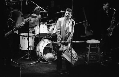 Massey hall, Toronto, April 24, 1978